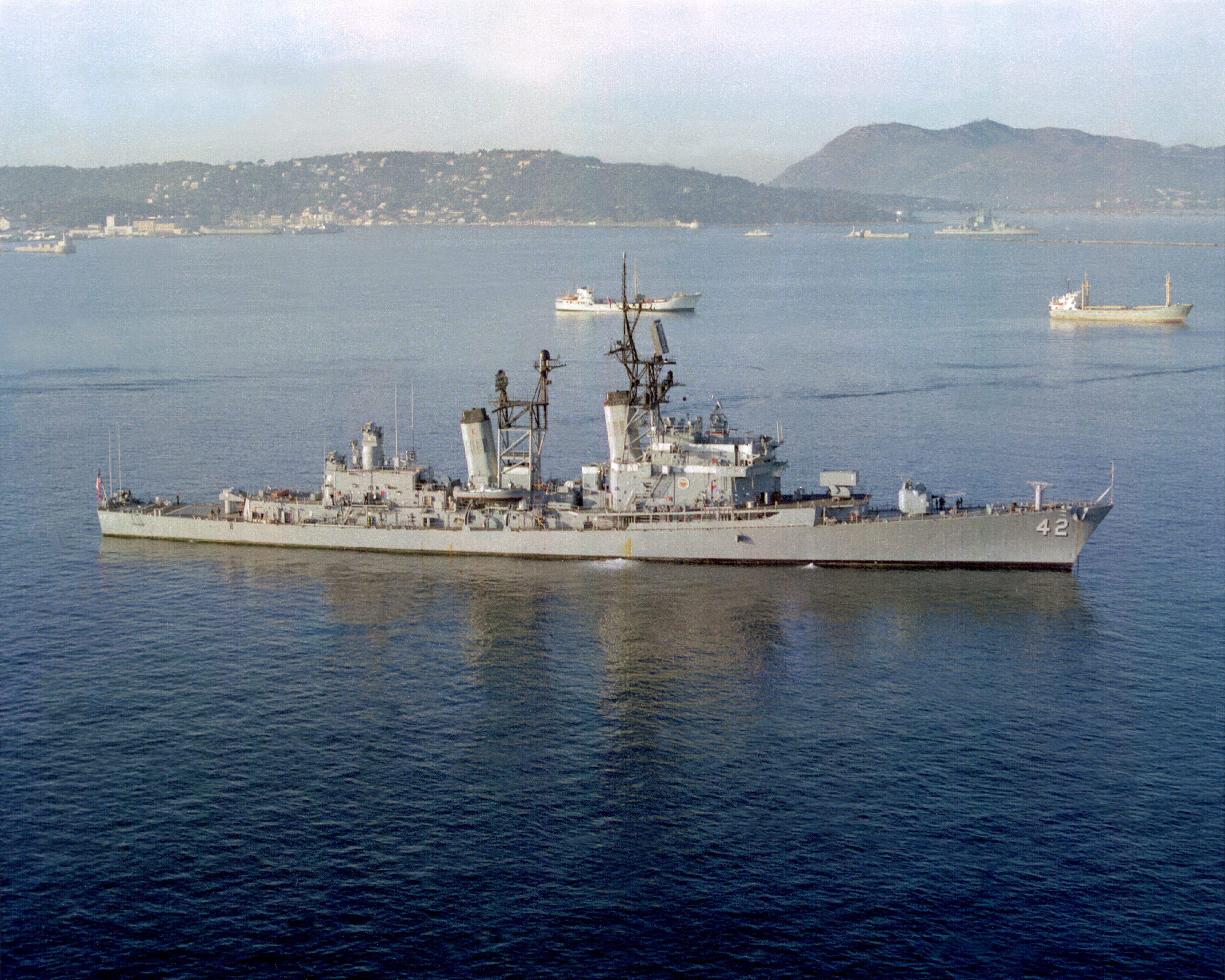 The U.S. Navy guided missile destroyer USS Mahan (DDG-42) anchored off Toulon, France, on 12 November 1979.